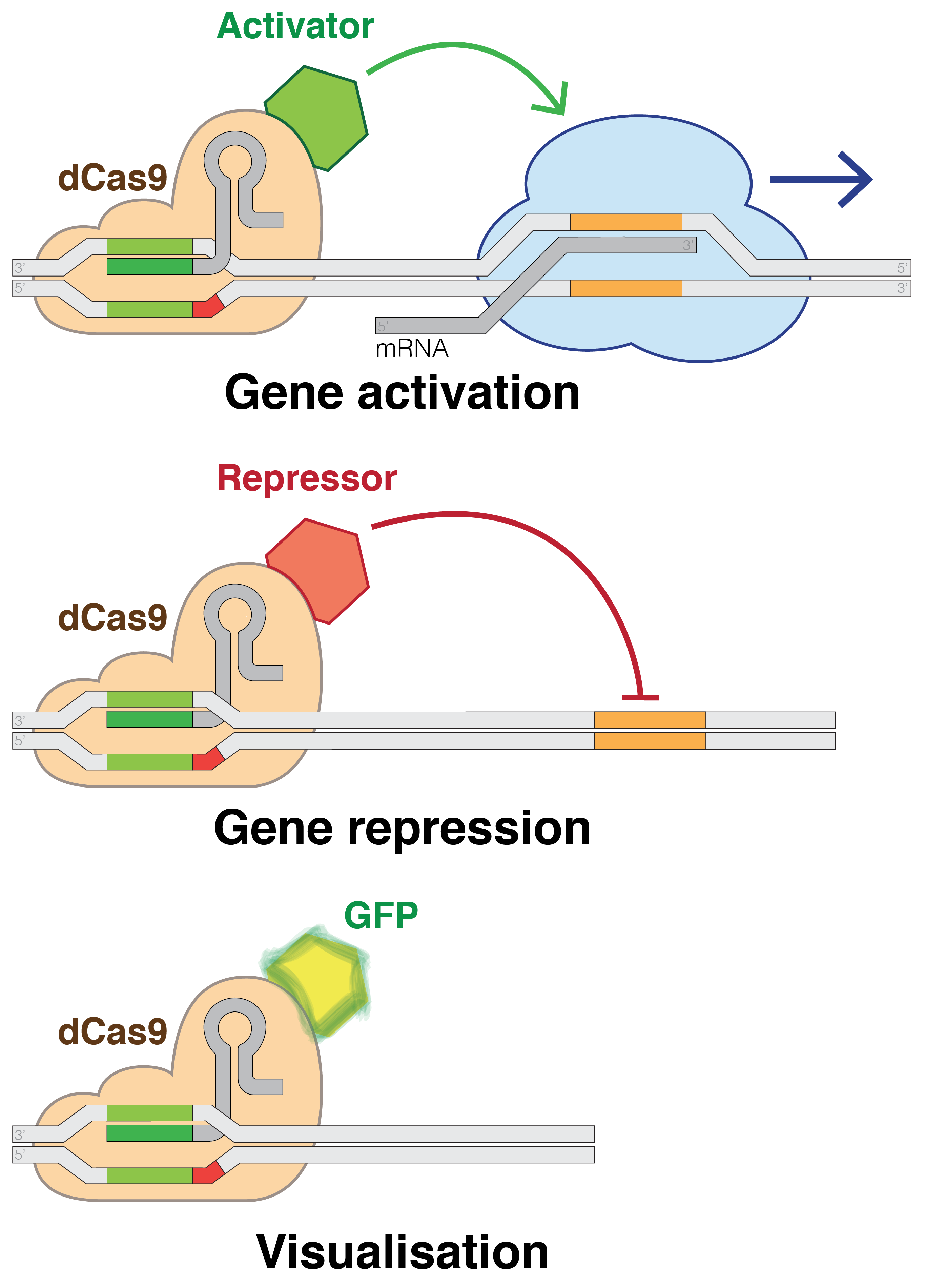 Example of dead-Cas9 system for gene activation, gene repression or locus visualisation